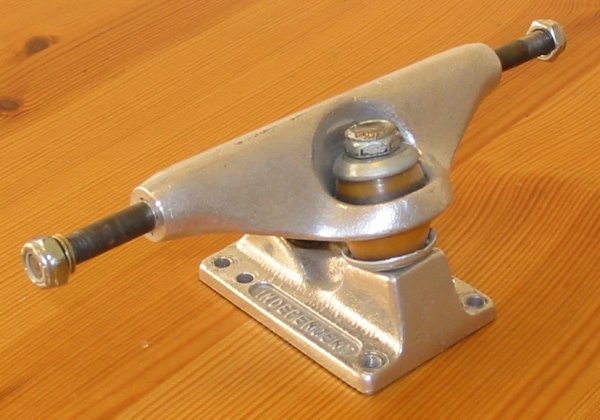 A skateboard truck. تراک اسکیت بورد